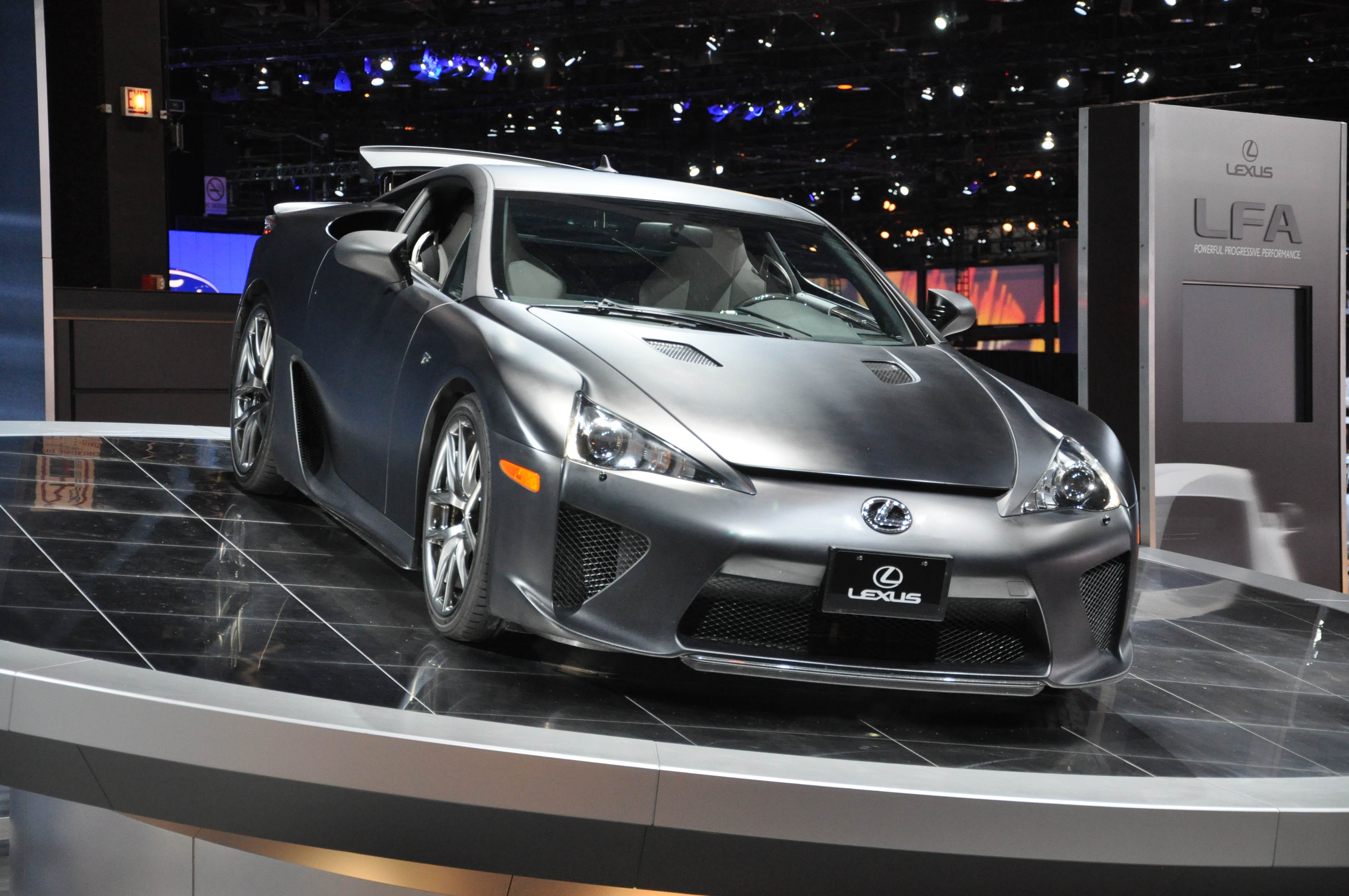 Chicago Auto Show 2010